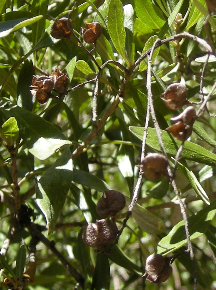 Bursaria spinosa opened fruit. Malborough, Central Queensland.